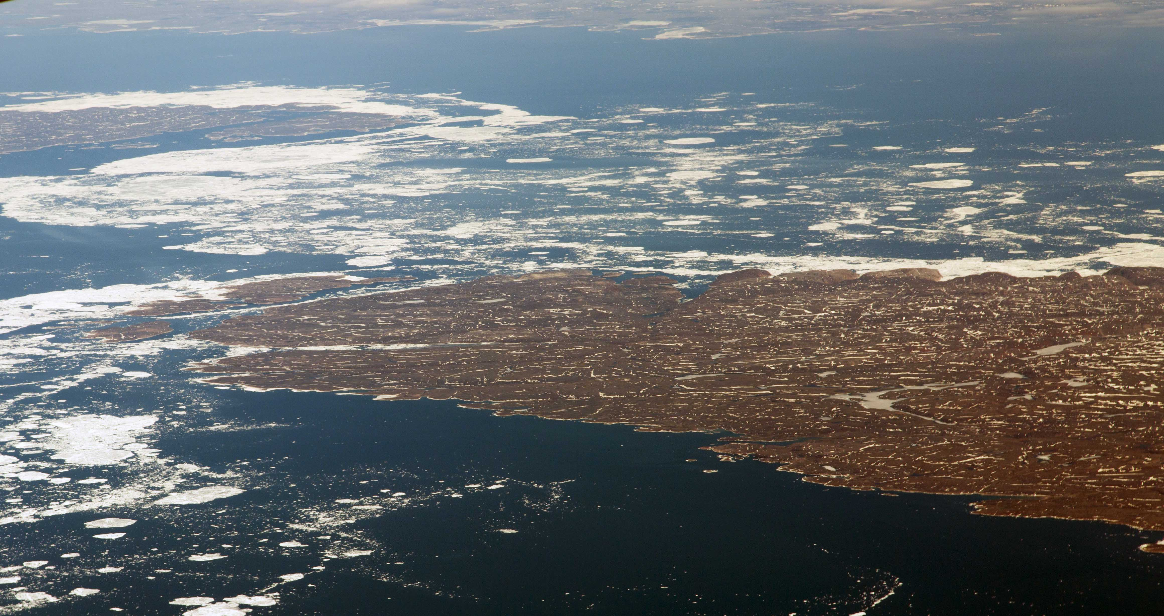 Salisbury Island, uninhabited in Qikiqtaaluk Region, Nunavut, Canada. Located in Hudson Strait, the entrance to Hudson Bay.